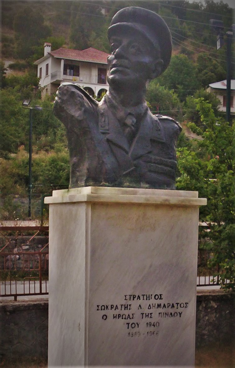 Statue (bust) depicting Sokratis Dimaratos. Made by Kyriakos Rokos. Vourbiani, 1975.